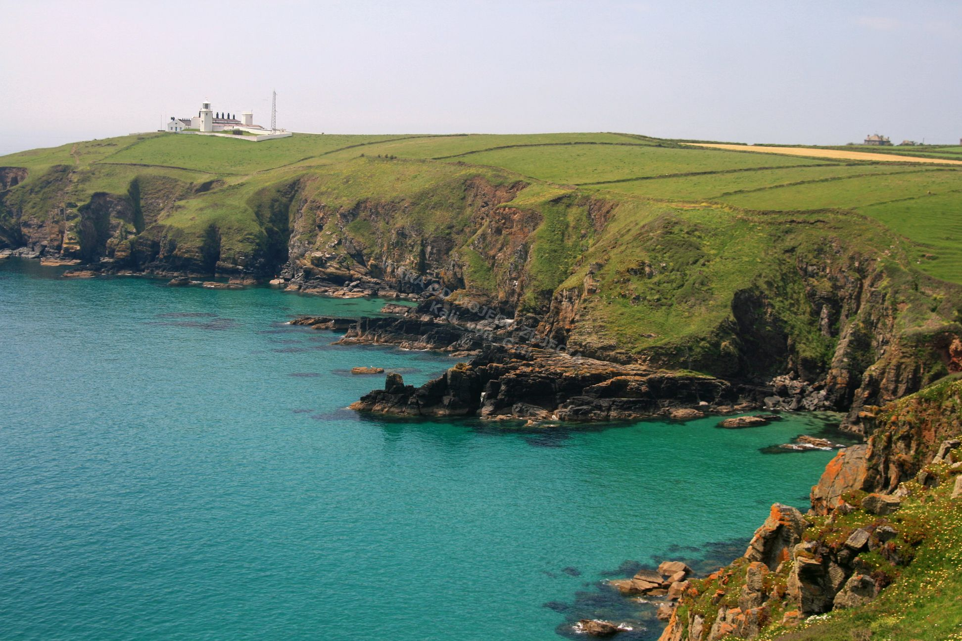 Lizard Peninsula Lighthouse , Coastline